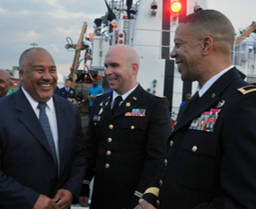 DCNG continuity with Jamaican Forces in 2018.